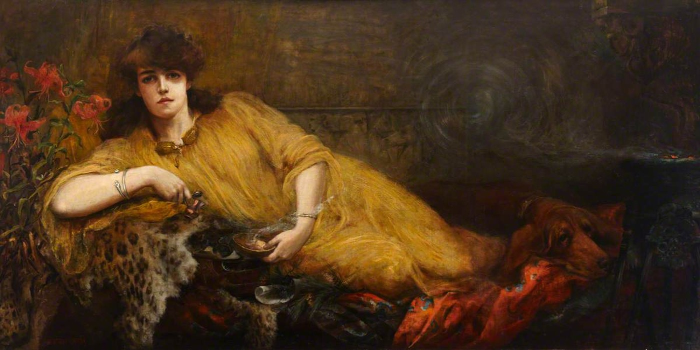 Love potion